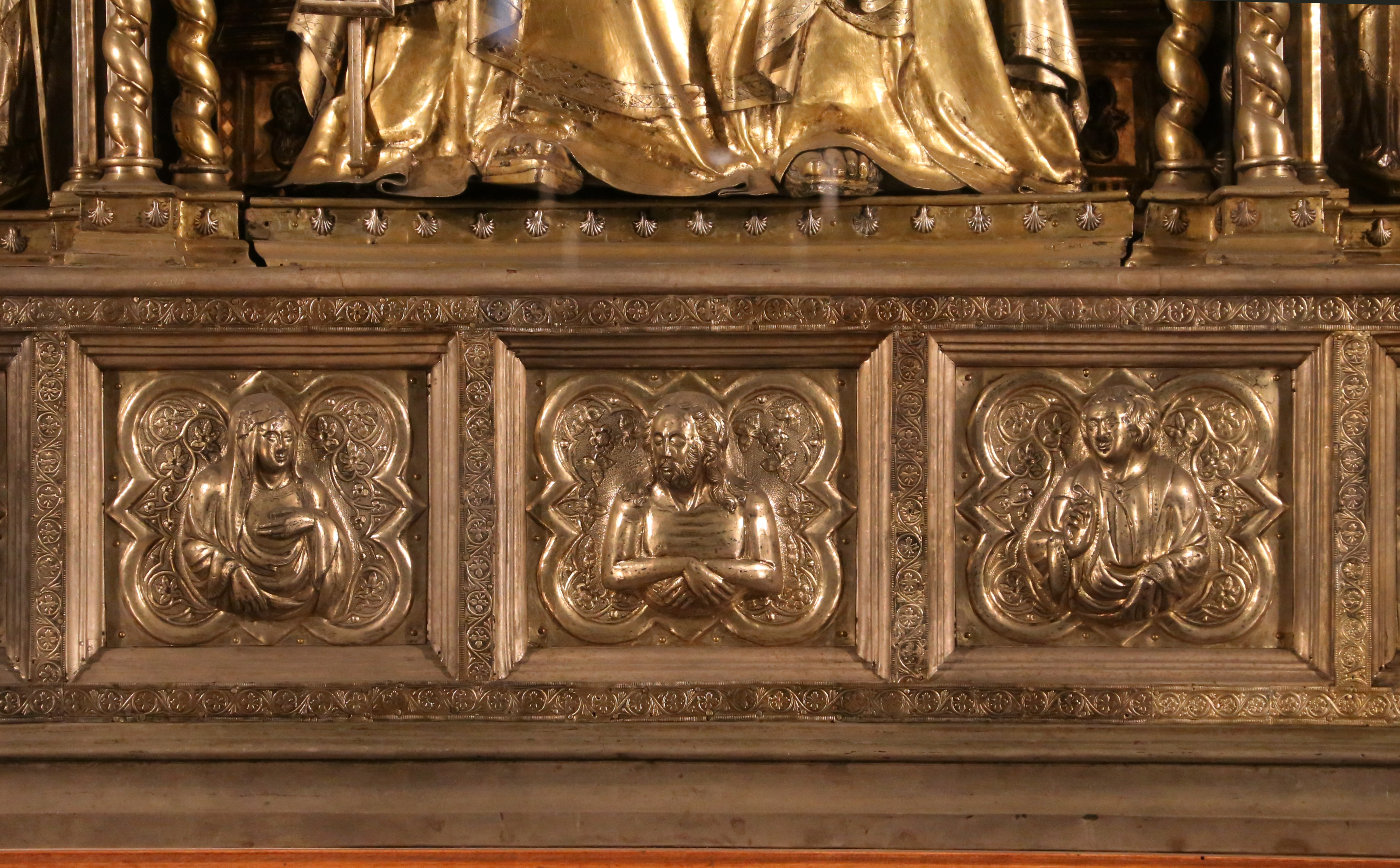 Silver Altar of Saint James